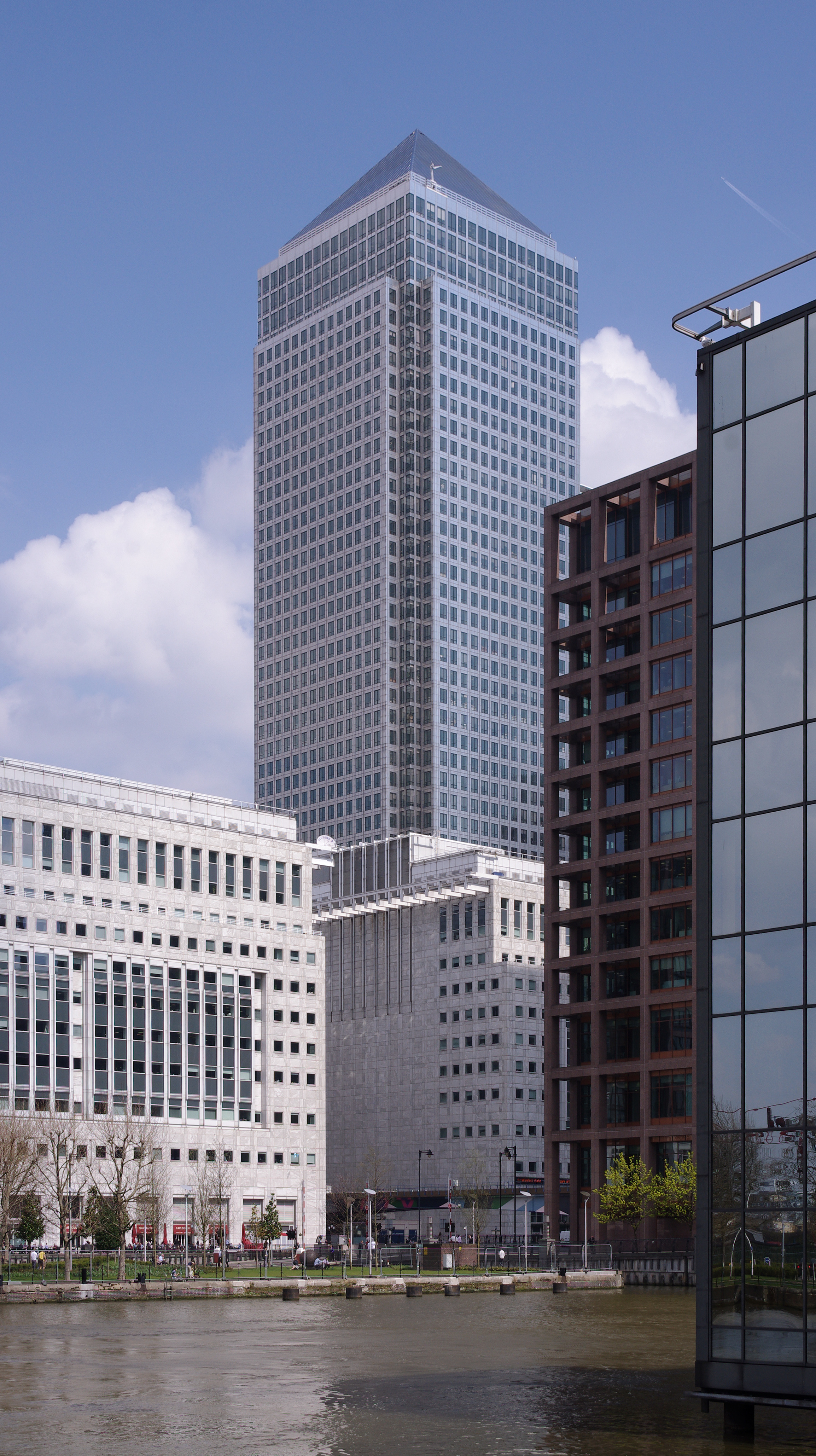 Looking towards 1 Canada Square over the City Canal.